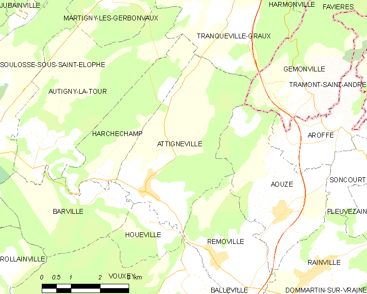 Map of French municipality Attignéville